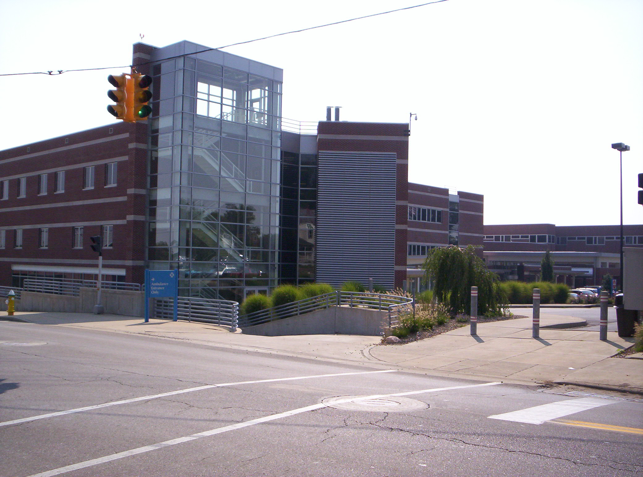 MedCentral Health System, Mansfield Hospital in Mansfield OH.